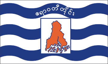 Flag of Ayeyarwady Division